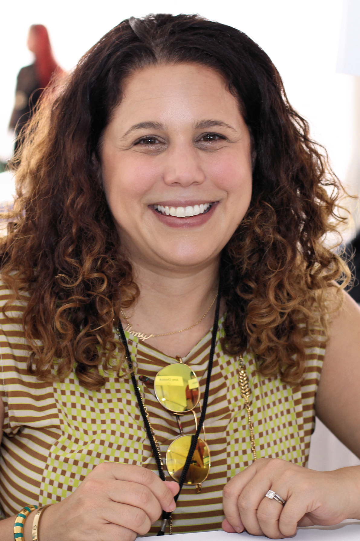 Journalist Amy Chozick at the 2018 Texas Book Festival in Austin, Texas, United States.